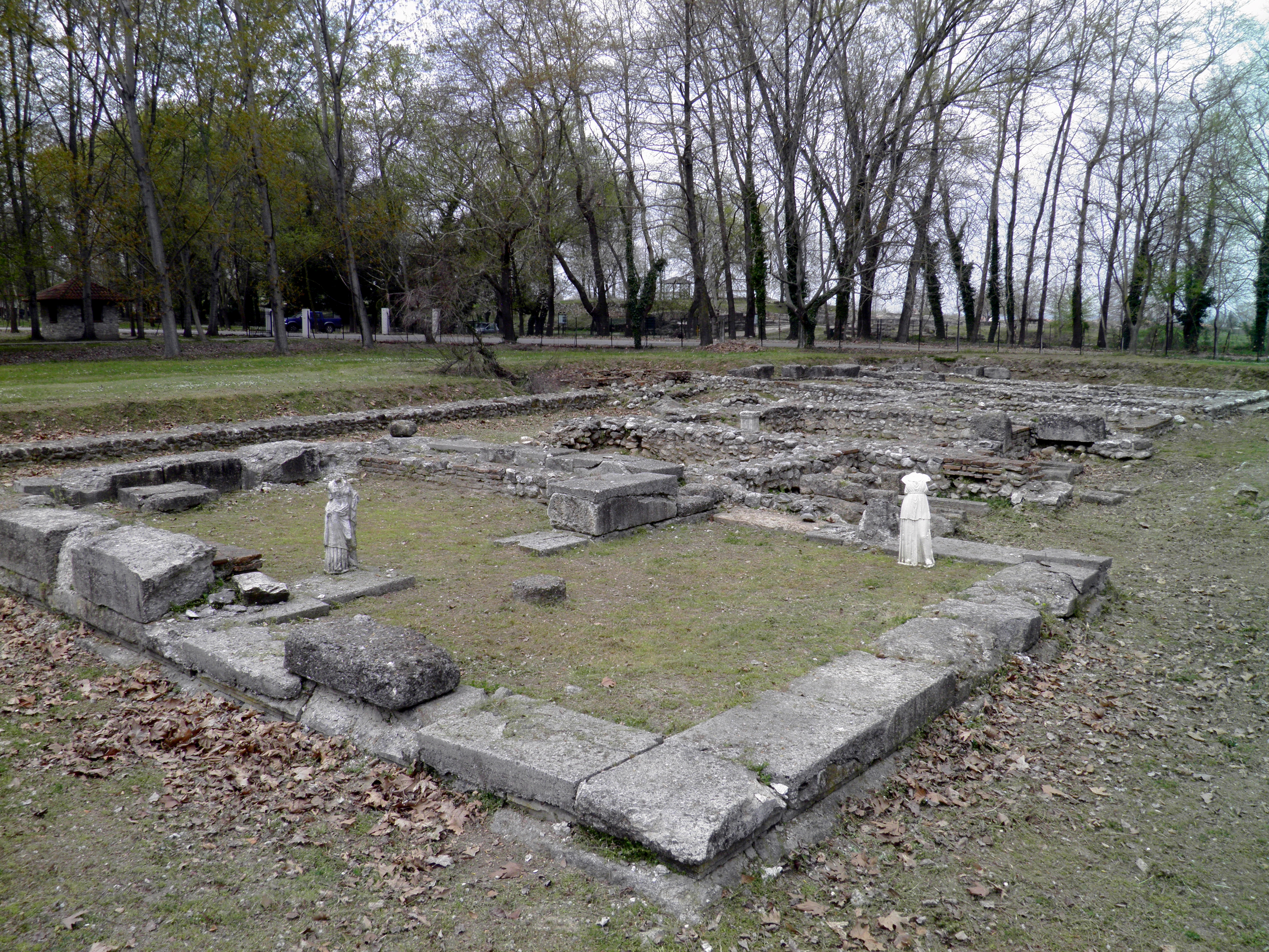 The sanctuary of Demeter at Dion is one of the oldest sites sacred to the goddess in Northern Greece. The temples within it were built at different periods, from the Archaic to the Imperial age. The earliest finds from the sanctuary were found in the enclosure with the wells, where libations were performed. The two fine Doric temples, for Demeter and her daughter Kore (Persephone), were built in the late 4th century, replacing the Late Archaic megara. Within the sanctuary there were also smaller, single-room buildings, where offerings were made to divinities associated with fruitfulness and fertility, such as Aphrodite, Baubo and Kourotrophos. In front of the temples stood a row of altars for sacrifices and libations to the underworld deities. By the late Imperial period, the sanctuary had been reduced to its northern section, while in Late Antiquity pottery kilns were set up in the area.